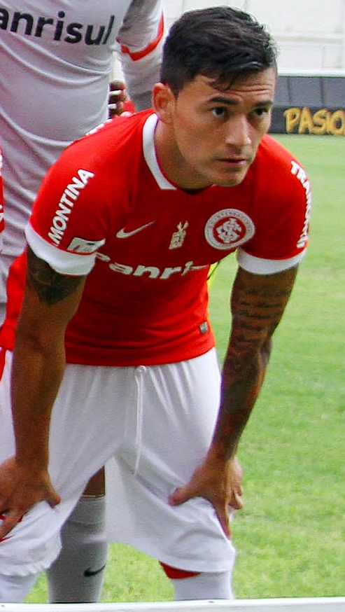 Charles Aránguiz